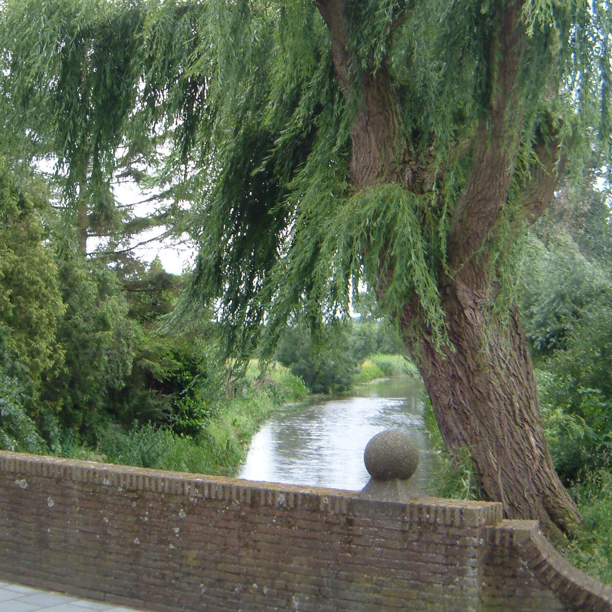 River Alm and an enormous willow next to the bridge in Almkerk